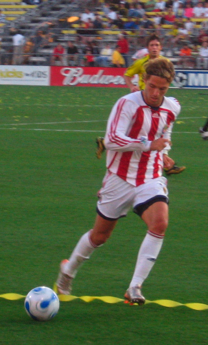 Laurent Merlin during Chivas' game at Columbus on May 12, 2007.